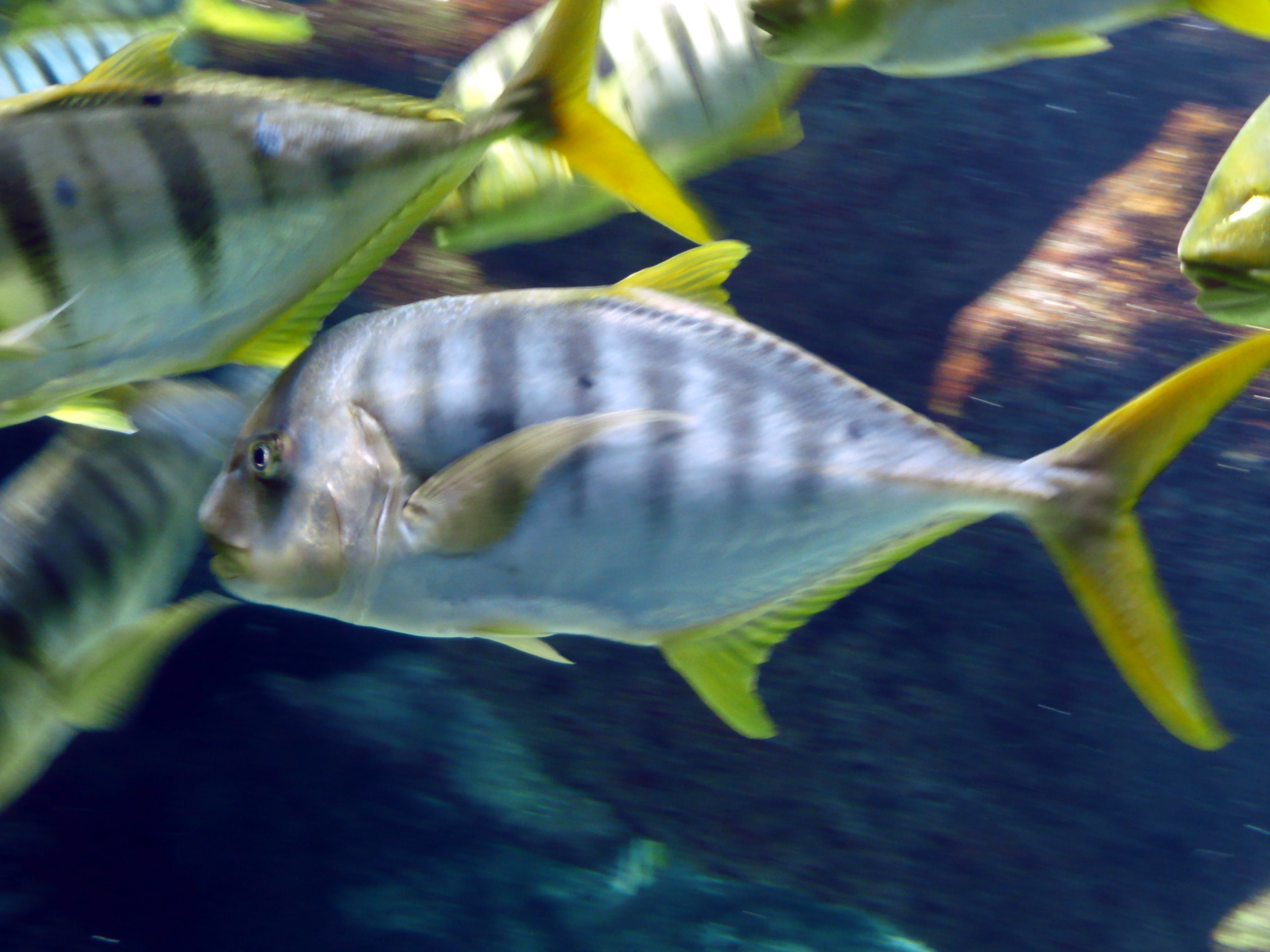 Gnathanodon speciosus in the Aquarium de La Rochelle